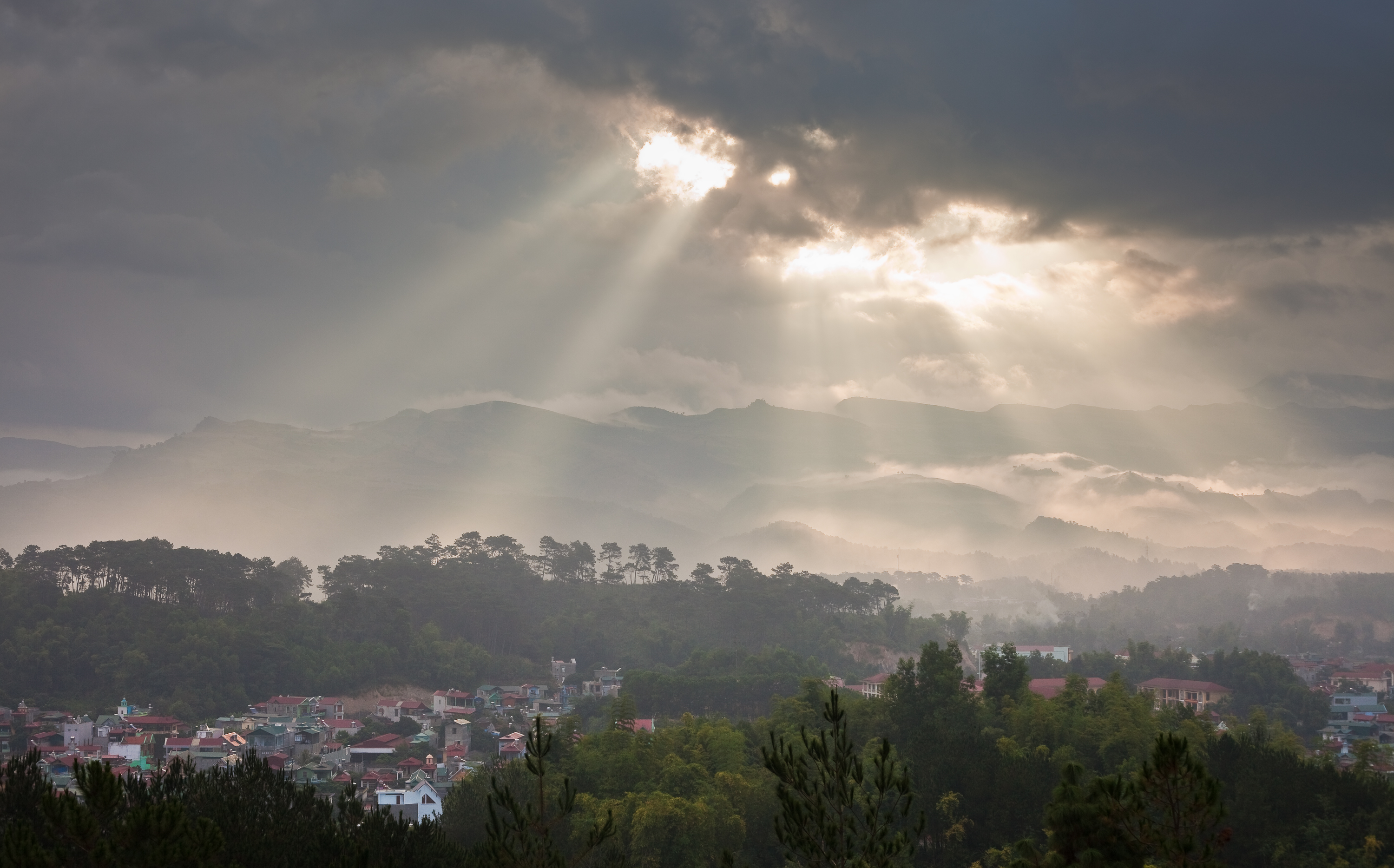 Mường Thanh Valley, view from Dien Bien Phu city, Vietnam.